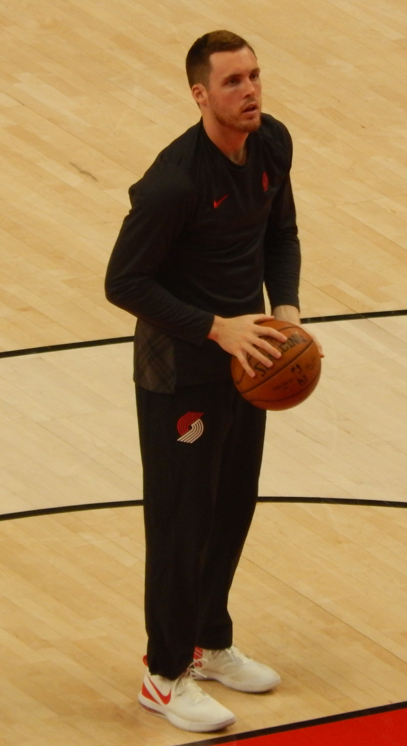 Pat Connaughton #5 of the Portland Trail Blazers against the Miami Heat on March 12, 2018 at Moda Center in Portland, Oregon.